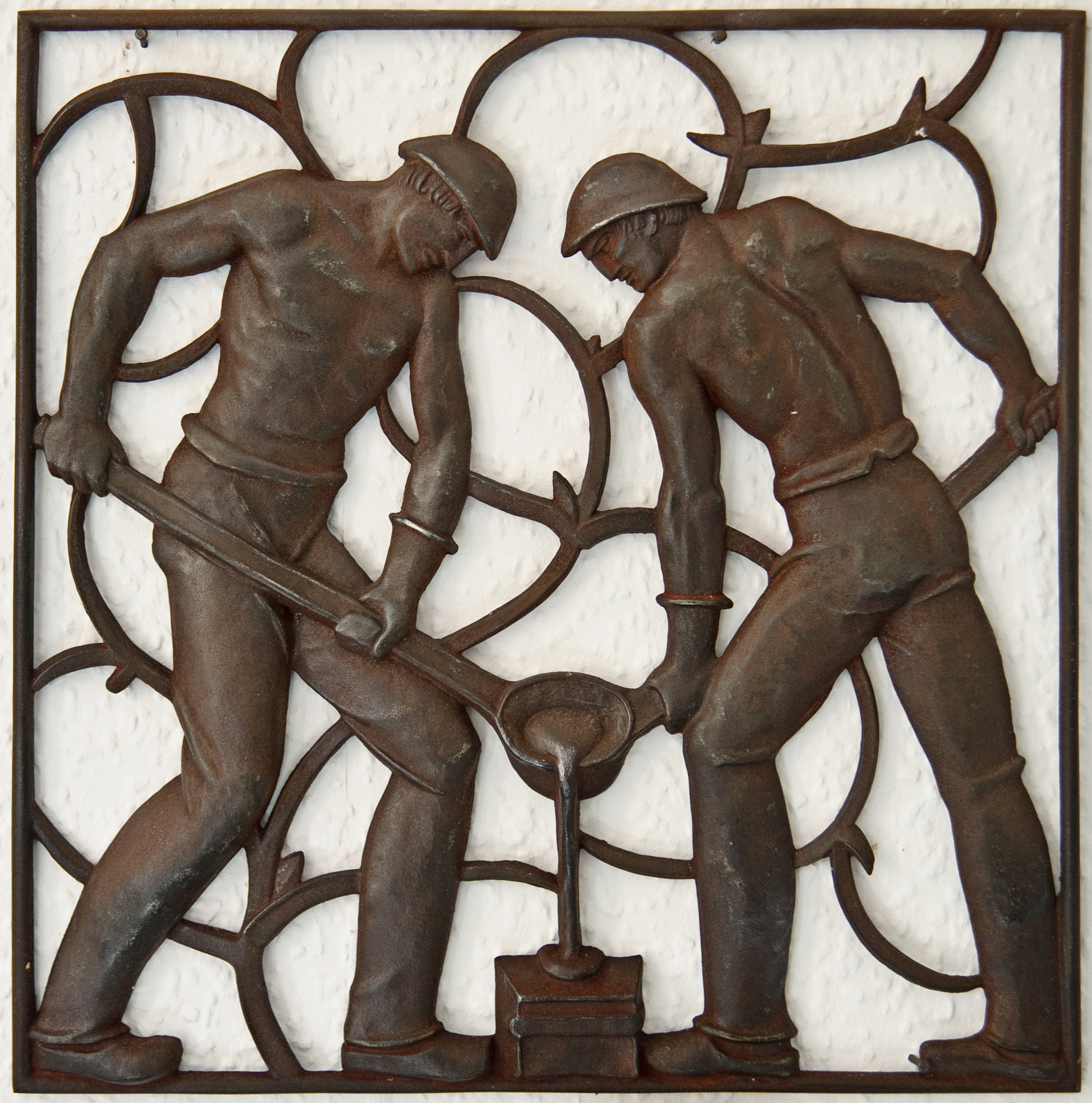 Iron cast, produced at Olsberger Hütte, showcased at museum Wulmeringhausen